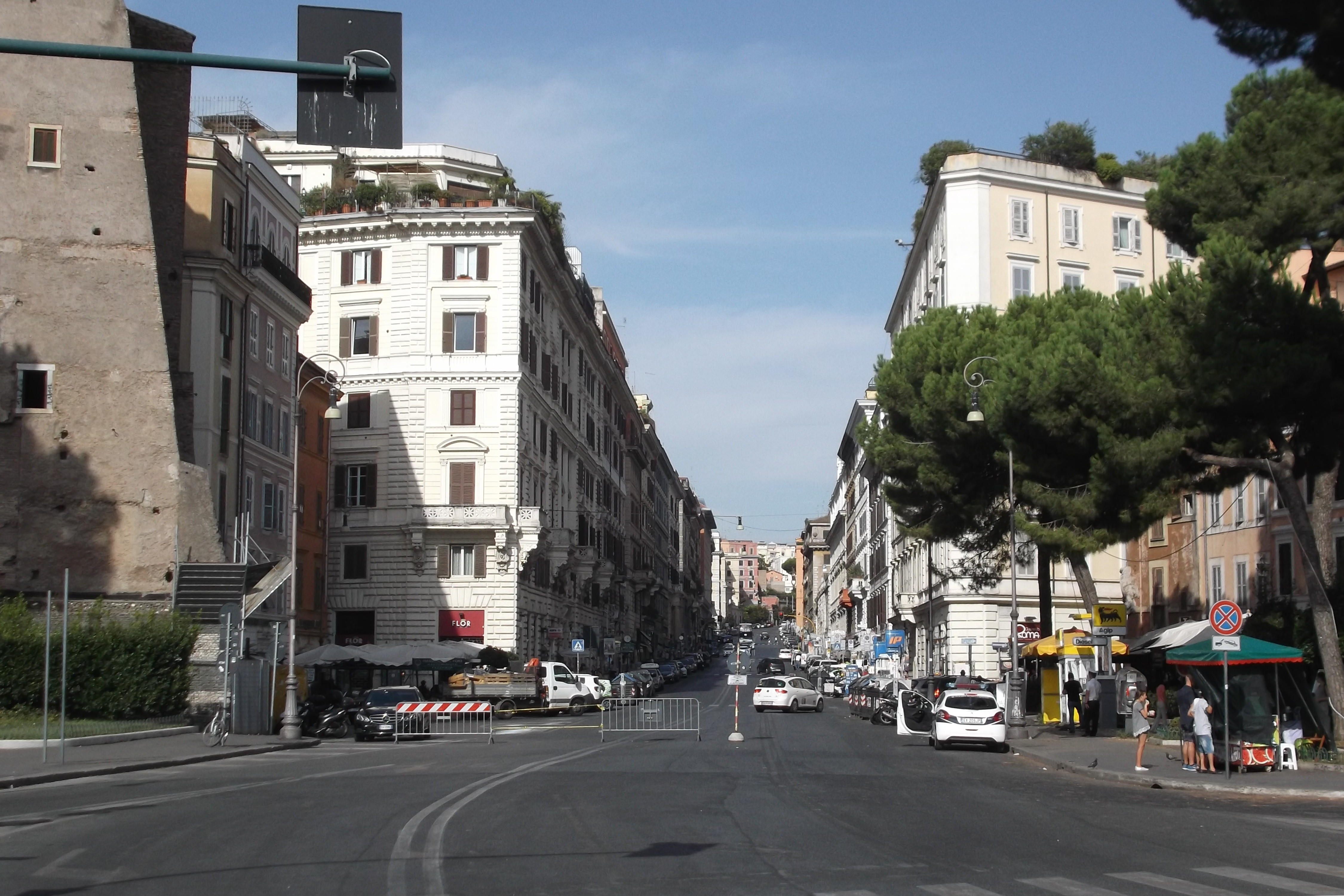 The downhill end of Via Cavour in Rome, which starts atop of the Esquilino Hill near to Stazione Termini; the place in foreground is Largo Corrado Ricci